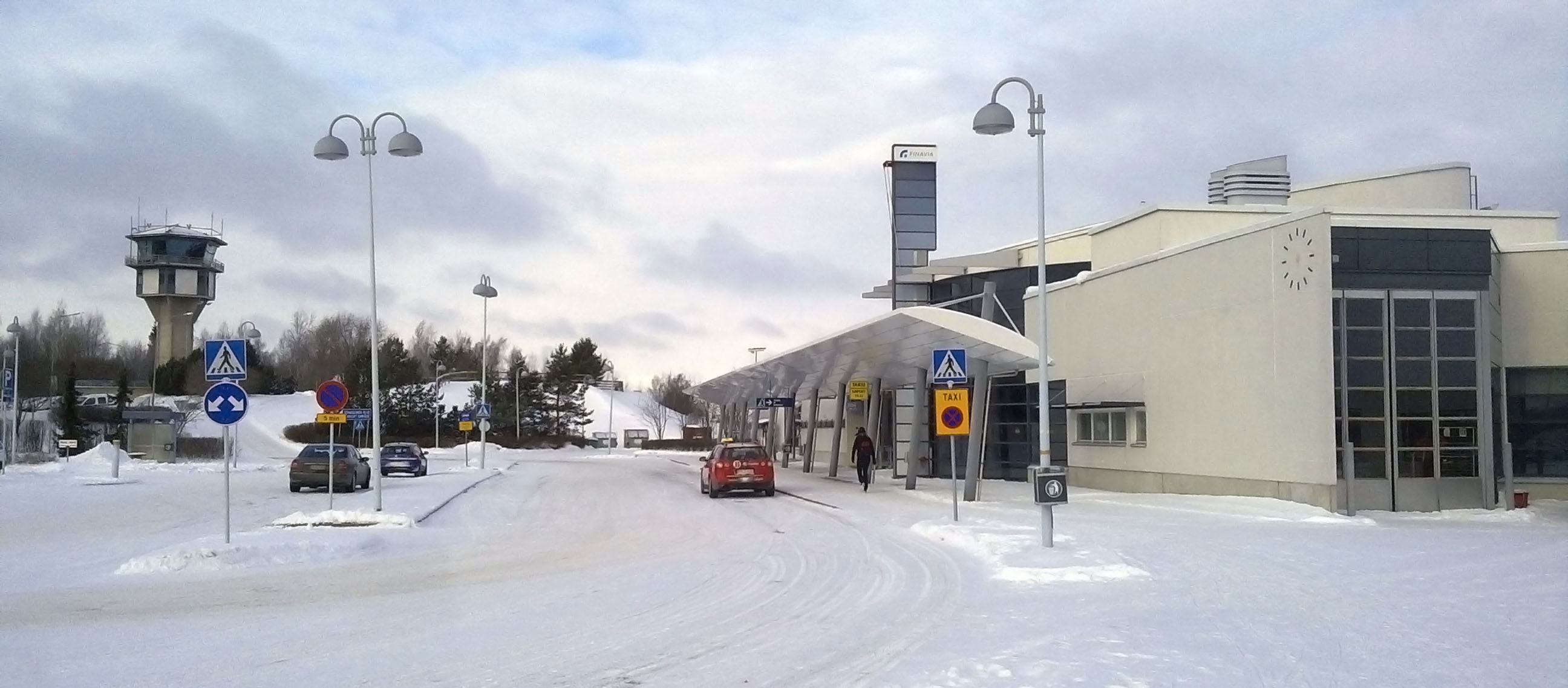 Vaasa Airport in Vaasa, Finland